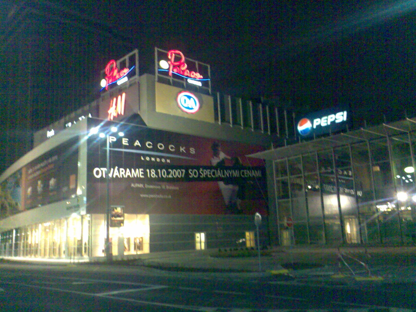 Bratislava construction update